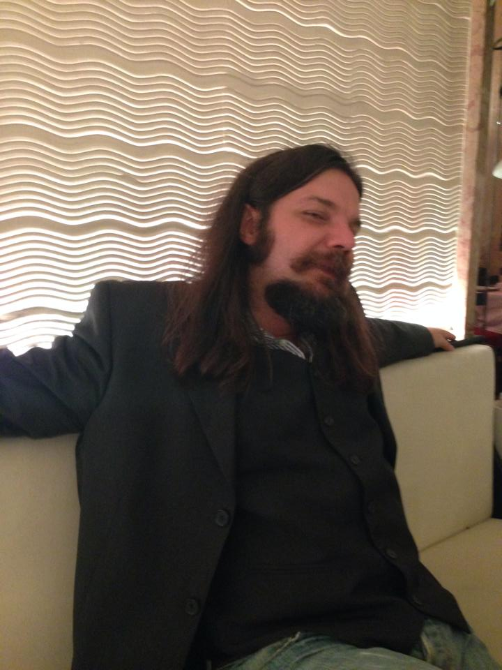 Matteo Strukul at the 2014 Padua SugarCon